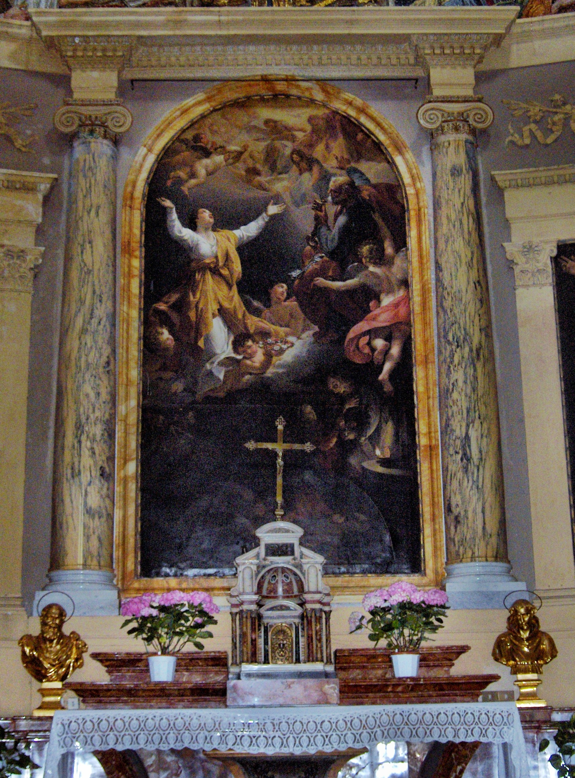 St. Pudentiana being received into Heaven